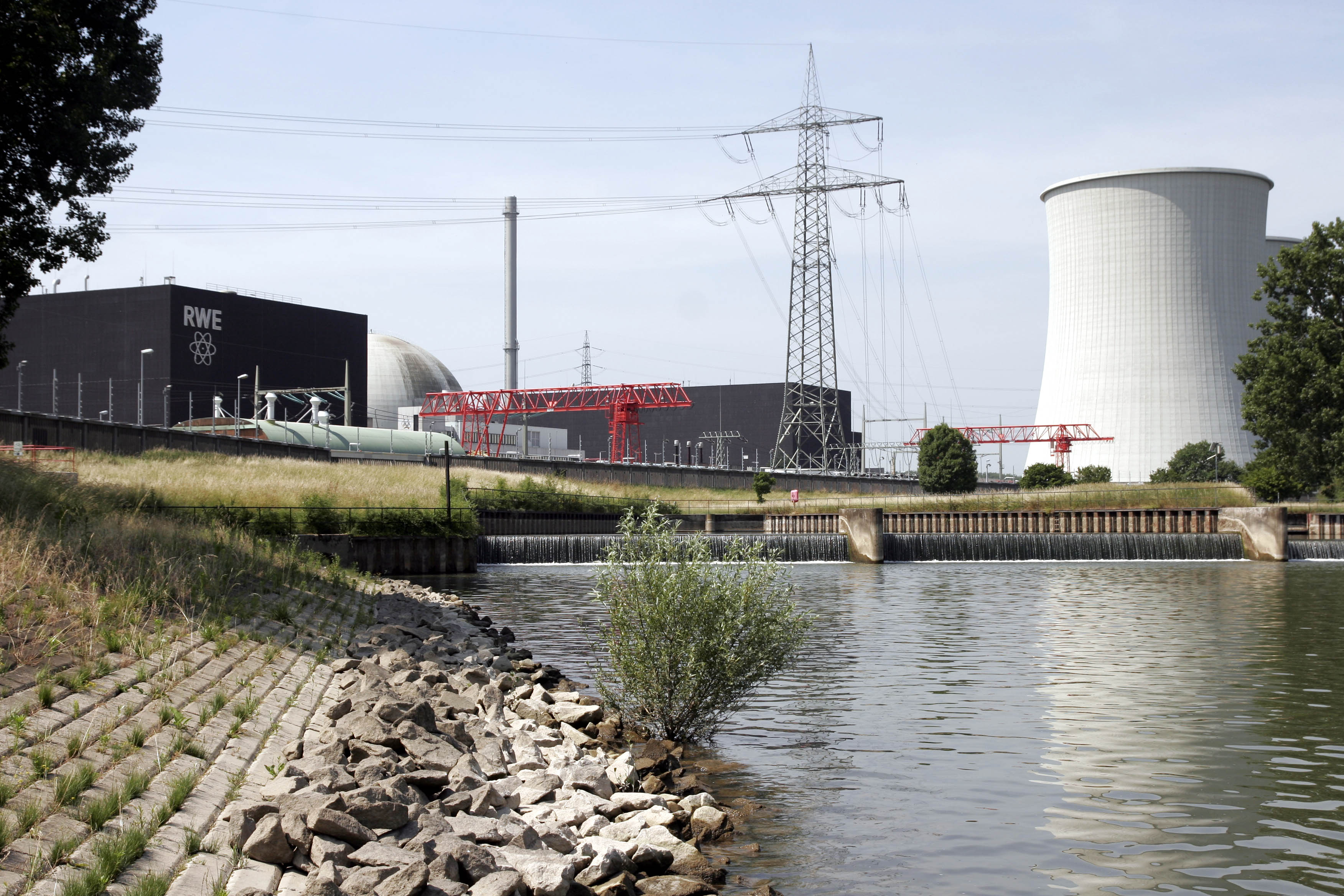 Biblis Nuclear Power Plant (Germany), cooling towers and core from block A seen from North-West.